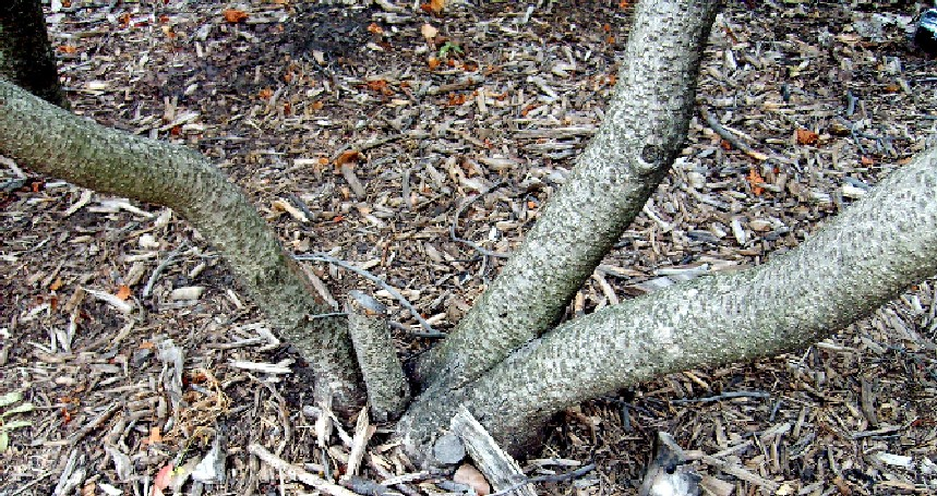 Rhus copallinum (Shining Sumac, Winged Sumac) trunk, at Illinois State University on the south side of Felmley Hall in Normal, Illinois on August 14, 2008.